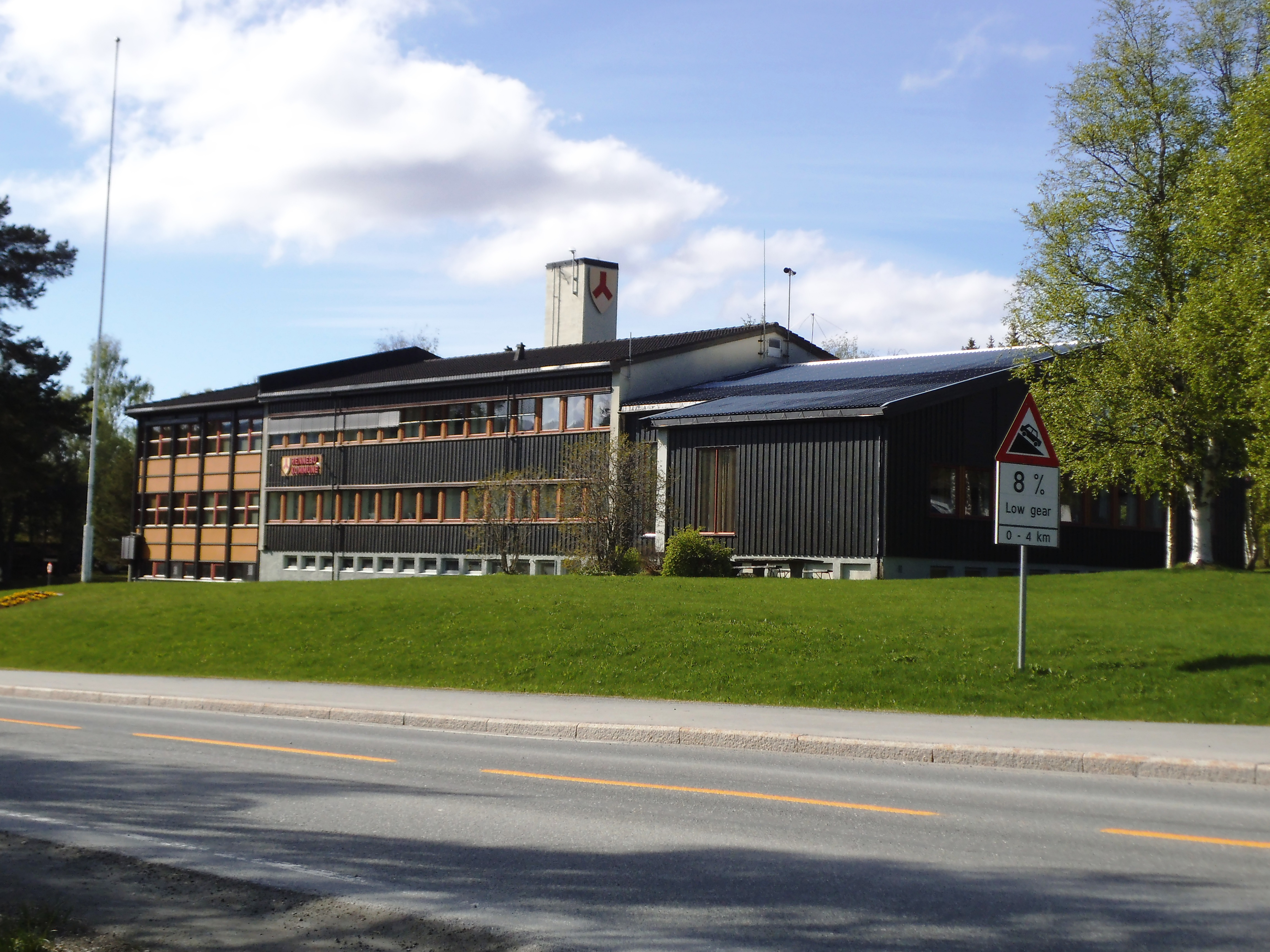 Rennebu rådhus. The municipal building in Rennebu, Norway.